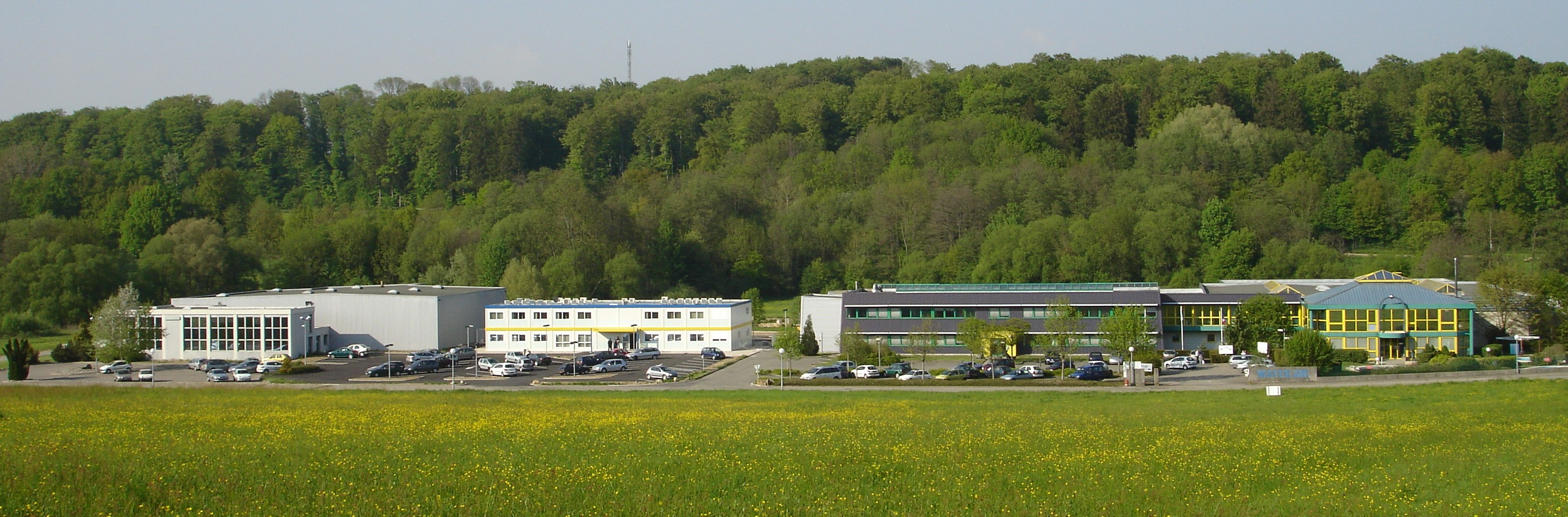 Panoramic view of the Headquarter of Waterair, at Seppois-le-Bas, in France.